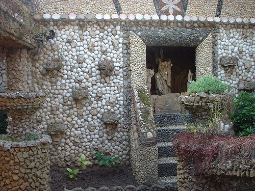 Garden named Rosa Mir in Lyon in France - part of the garden